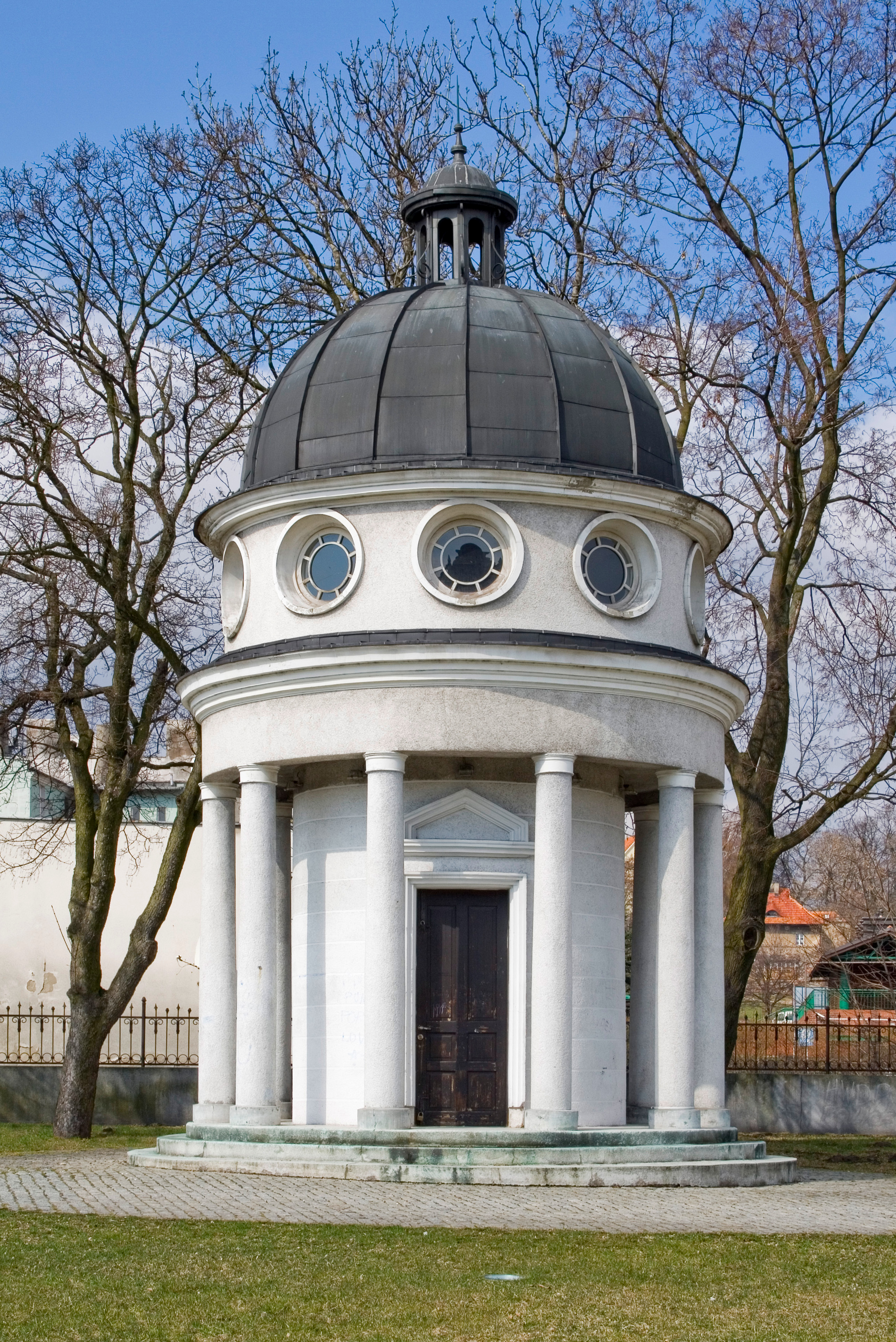 Building in the meadow in front of the Gniezno Cathedral, Poland